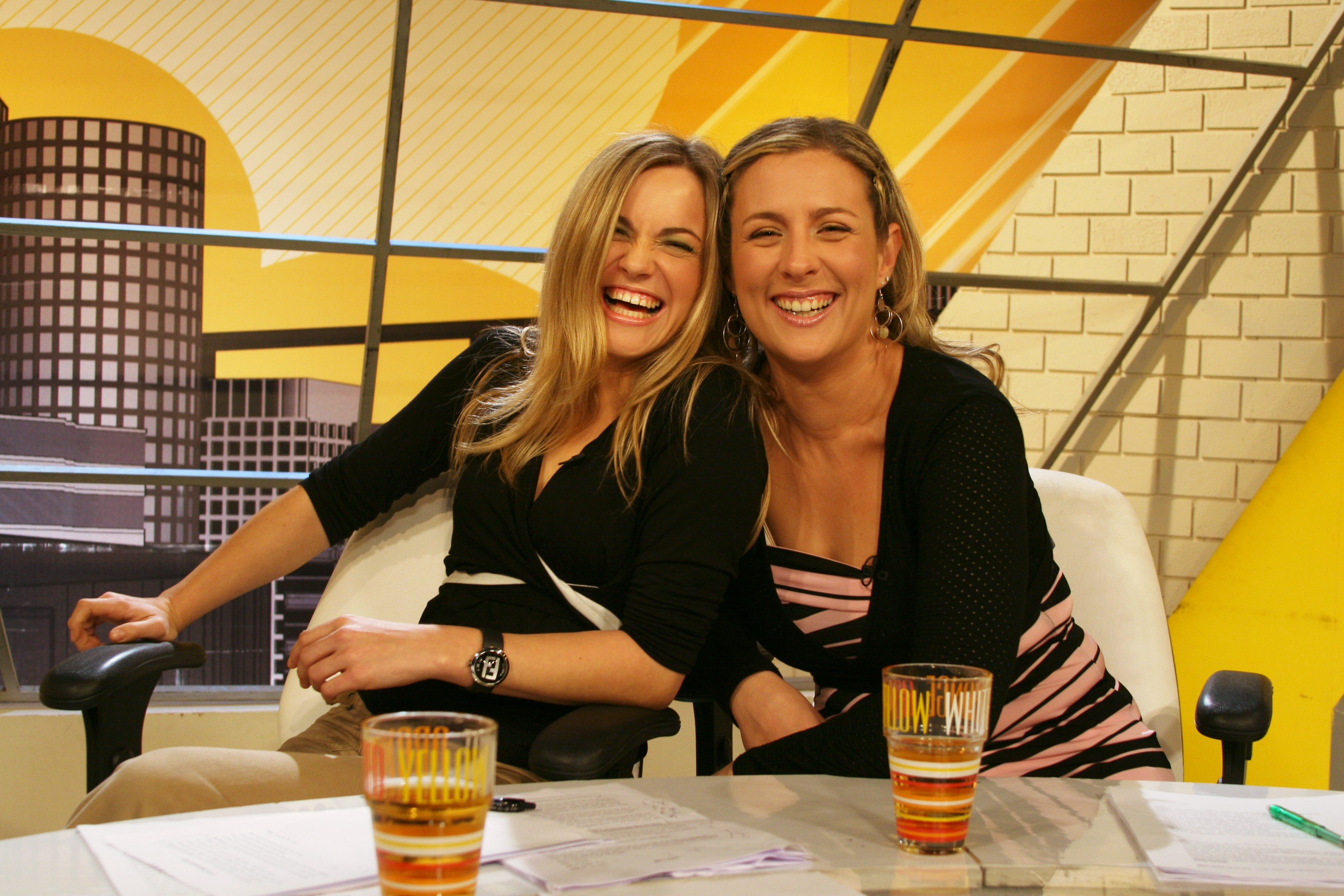 Natasha Mozgovaya (to the left) & Daphna Shpigelman on the set of "HaBoker HaShvihi" (Television magazine)